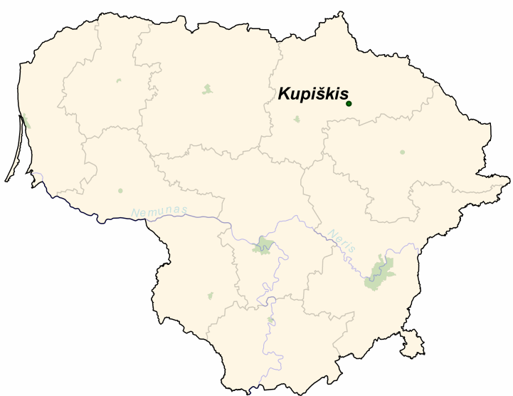 Kupiškis on the map of Lithuania